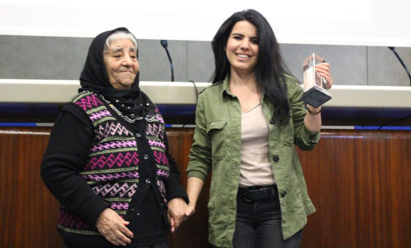 Yazılı Haber Ödülü’nü, 3 Mart 2015 tarihinde yayınlanan ‘Êzidî Kadınların Çığlığı’ başlıklı haberiyle kazanan JİNHA Muhabiri Zehra Doğan, ödülünü Metin Göktepe’nin annesi Fadime Göktepe’nin elinden aldı Fotoğraf:Ezgi Görgü/Evrensel Gazetesi